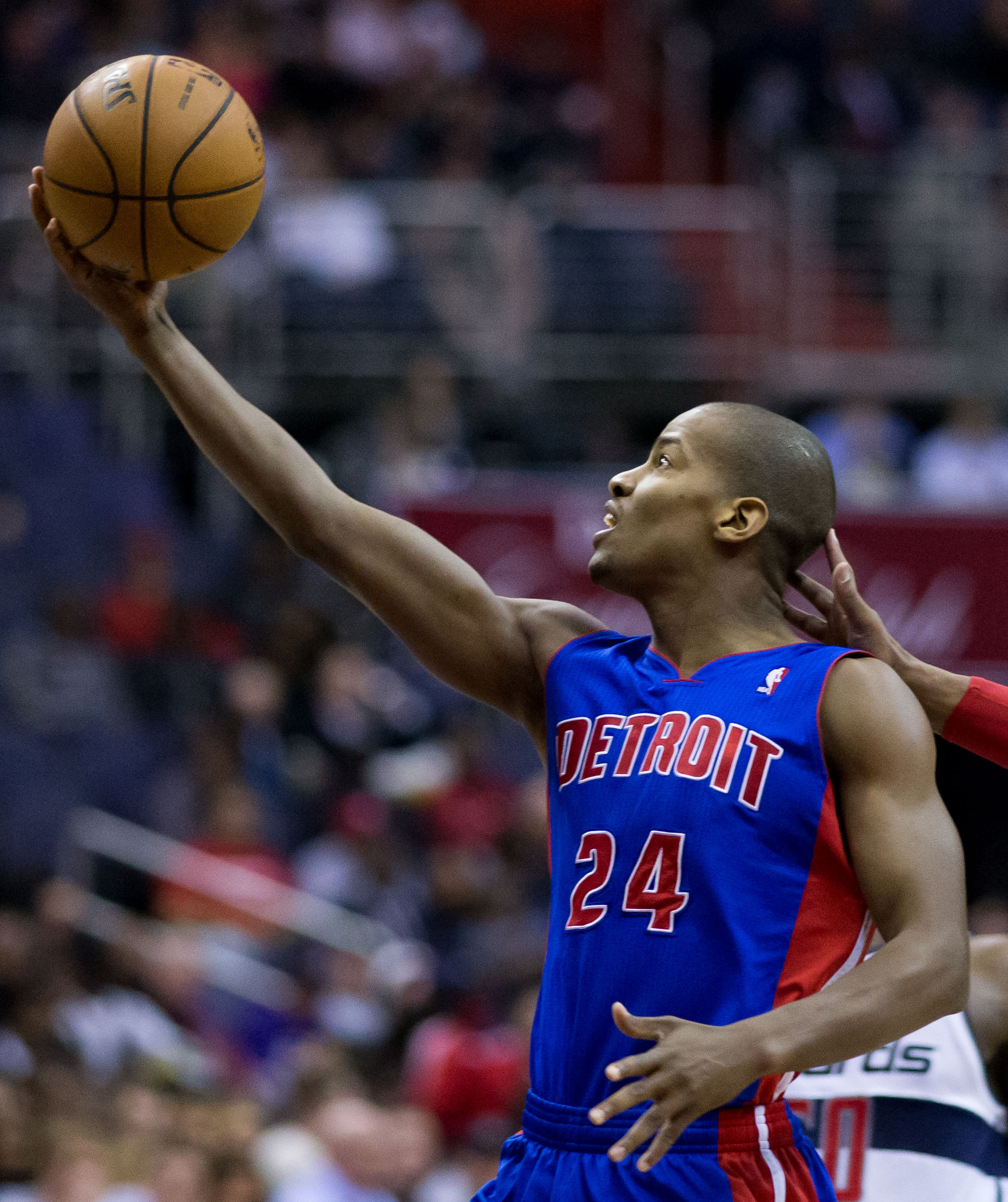 Kim English, Detroit Pistons at Washington Wizards Feb 27, 2013